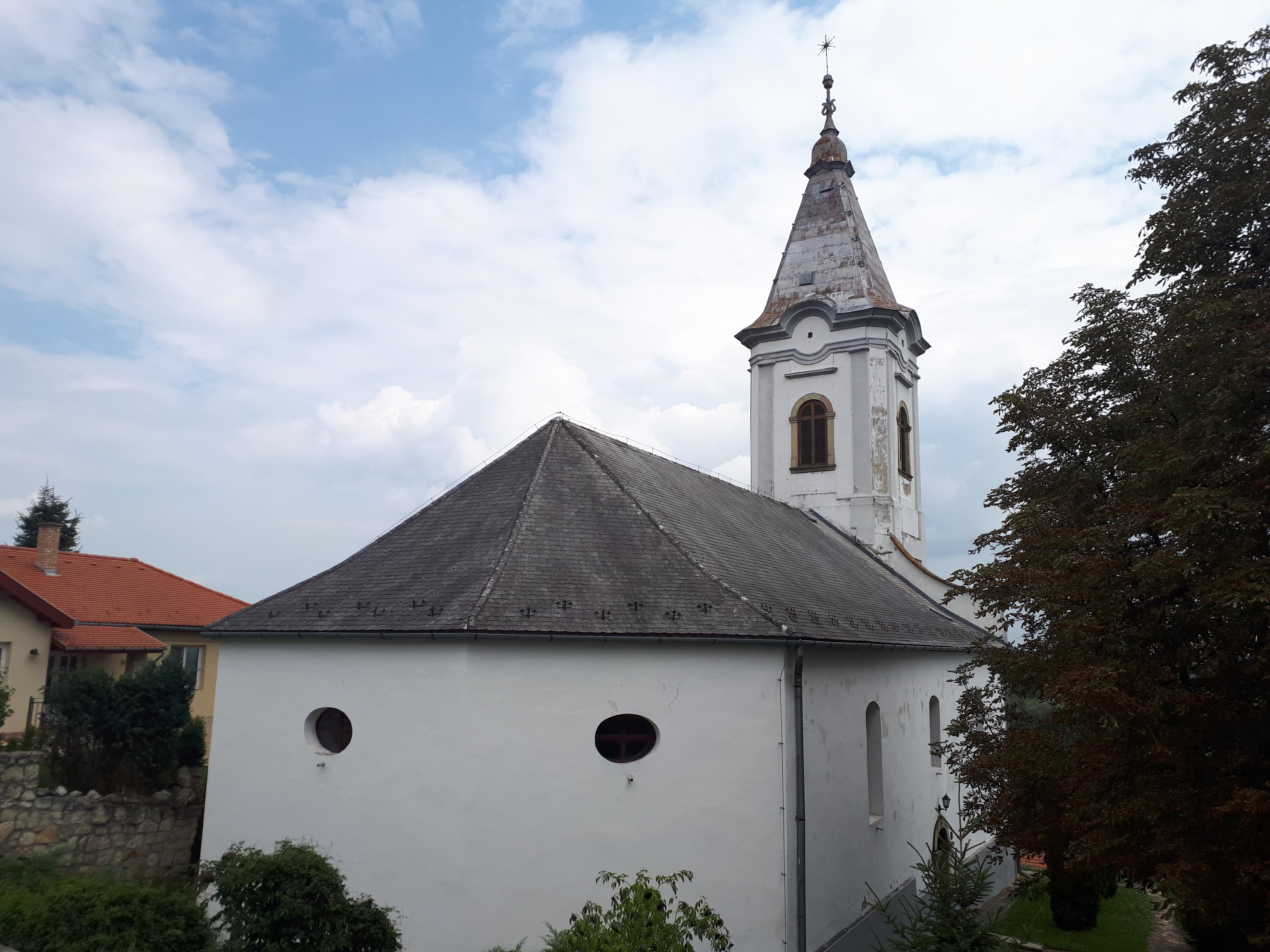 Reformed church of Bodrogkeresztúr, Hungary, built in 1790. This is a photo of a monument in Hungary. Identifier: 2672